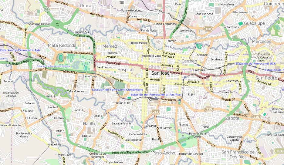 This map may be incomplete, and may contain errors. Don't rely solely on it for navigation.